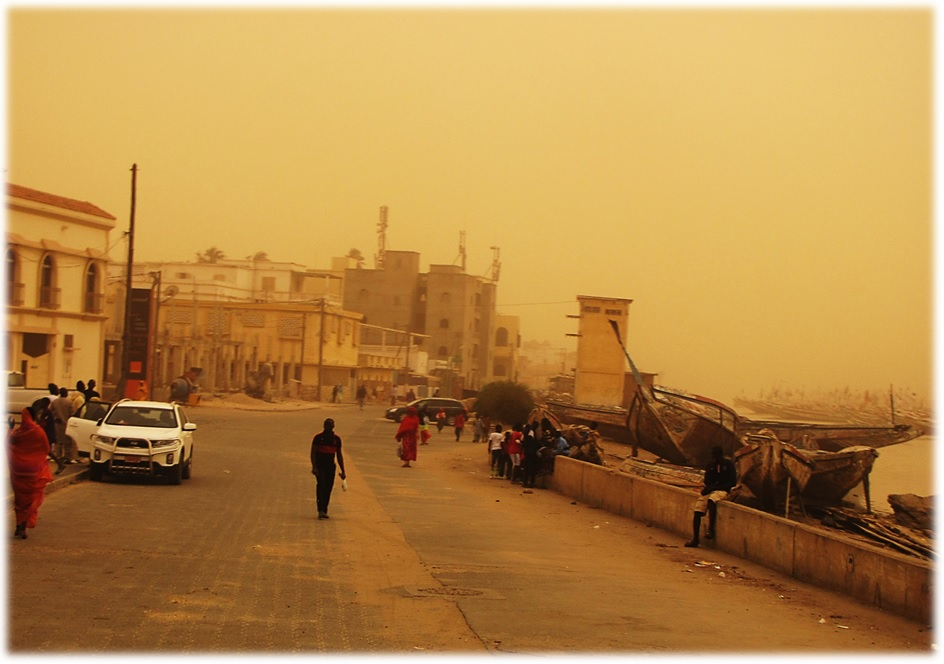 December Harmattan dust obscures the fishing boats (pirougues) and waterfront of the Senegal River at the historic old town at Saint-Louis. Photo taken at about 4pm in the afternoon.